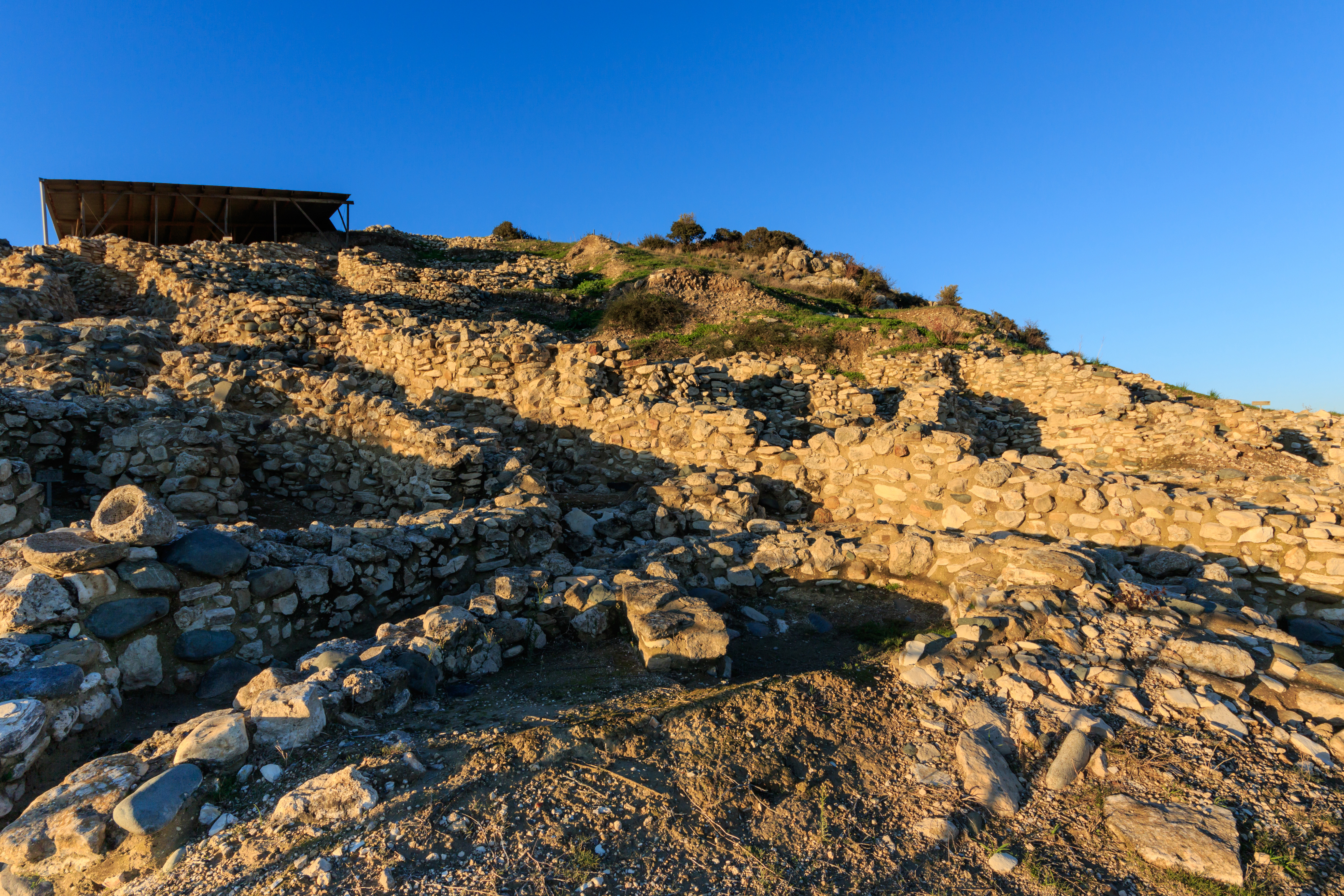 Neolithic Archaeological Site of Khirokitia near Larnaca, Cyprus